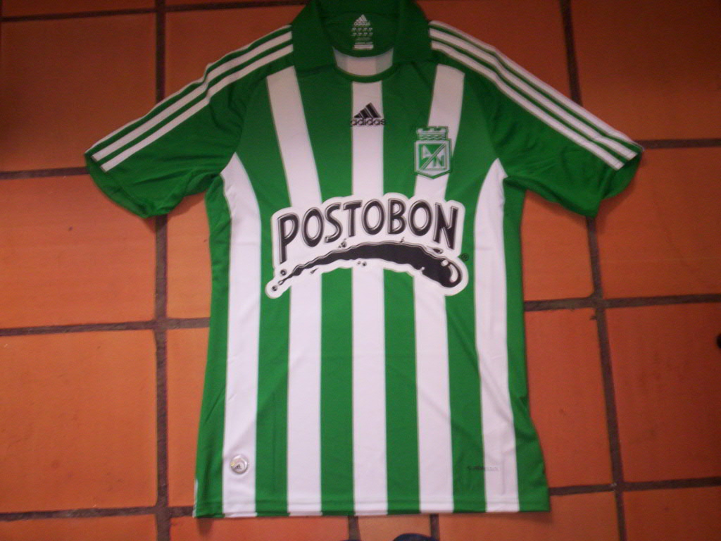 Atletico Nacional 2009 Home